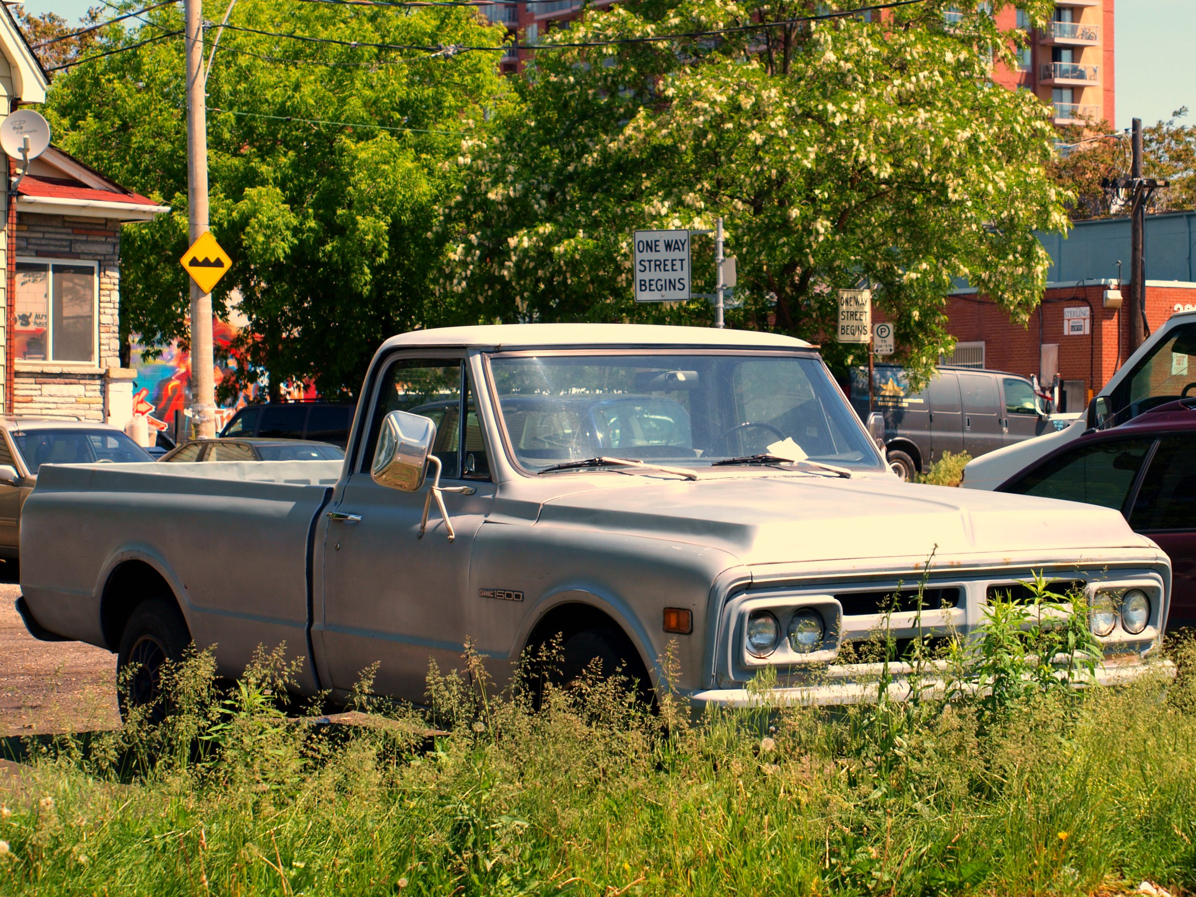 1967-1972 model with the 1969+ steep angle hood end.